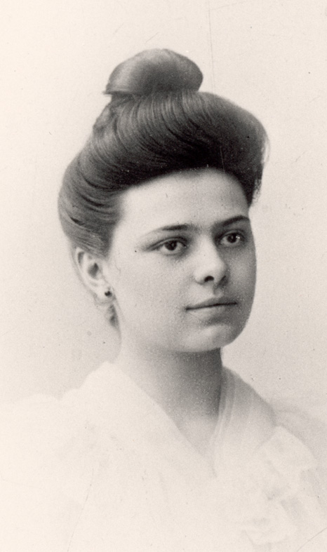 Portrait Elisabeth of the Trinity